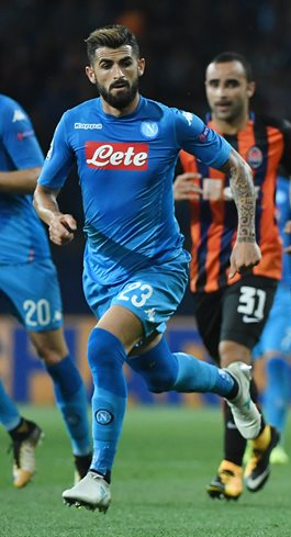 Elseid Hysaj